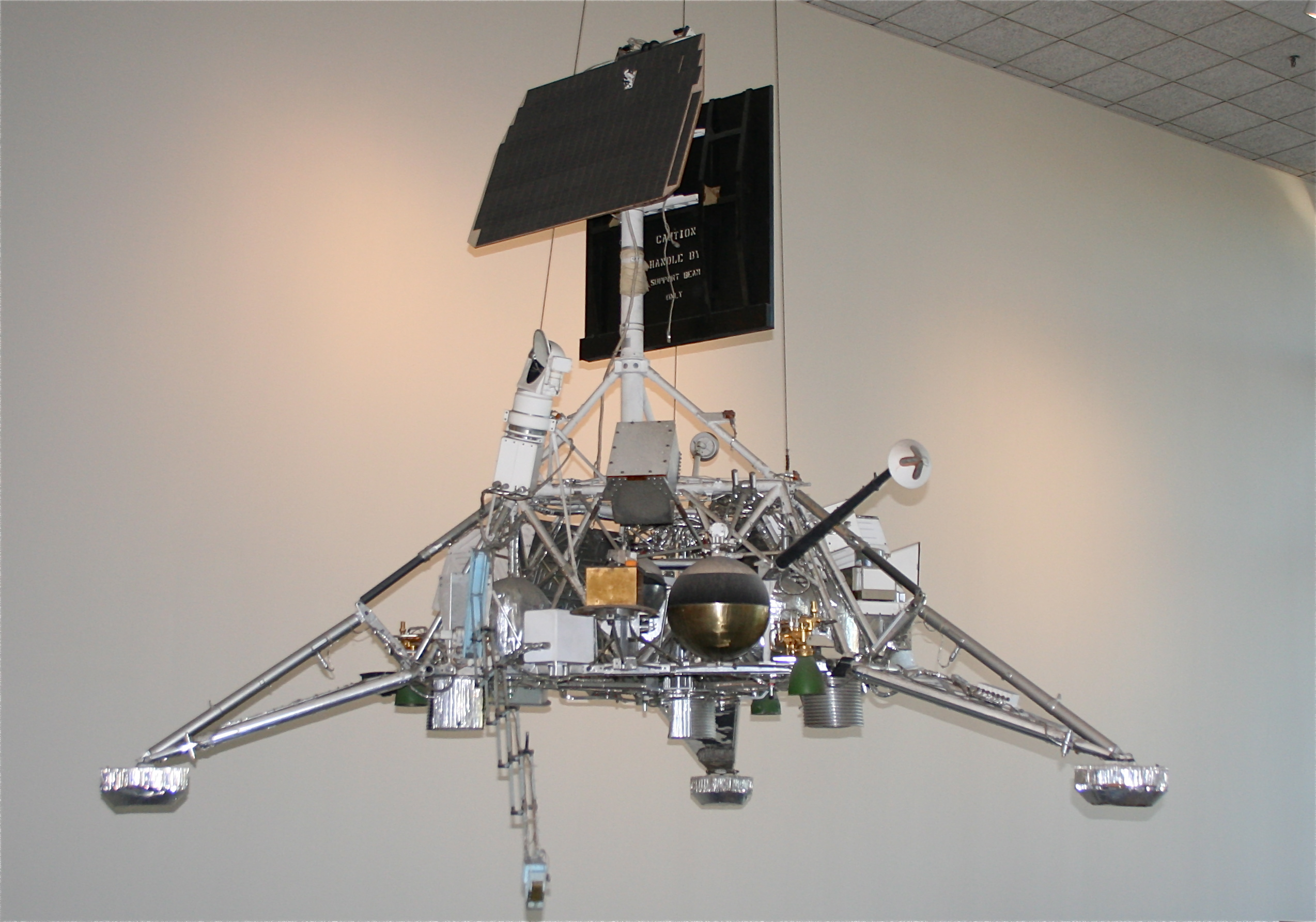 Surveyor lander on display at the National Air and Space Museum in Washington DC.